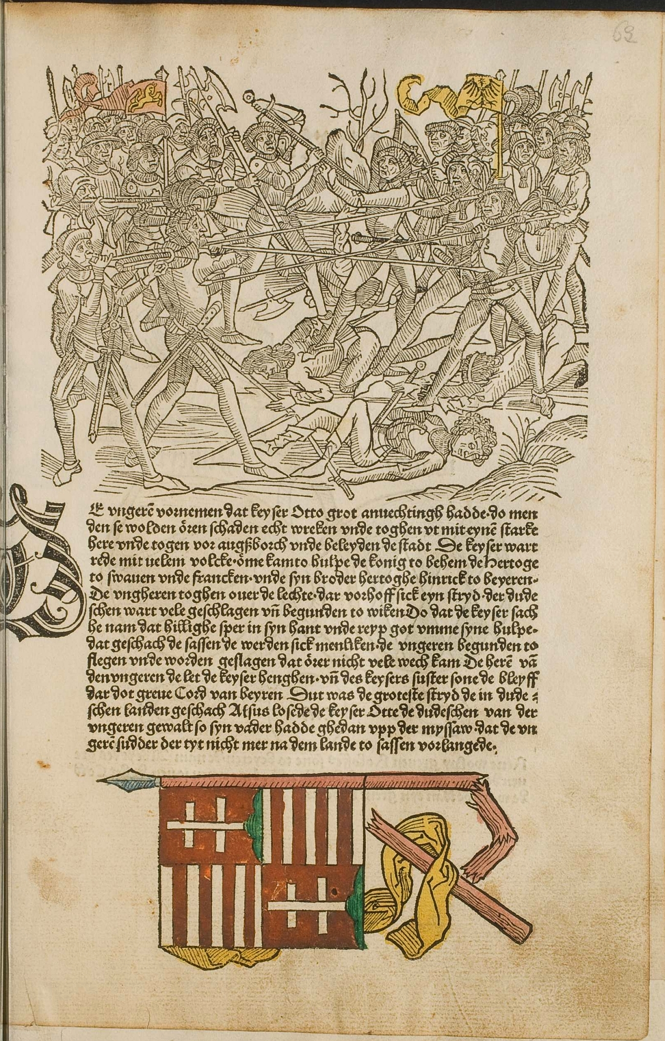 Illustration from the incunabulum: Cronecken der Sassen (The Chronicles of Saxony) printed by Peter Schöffer in Mainz.